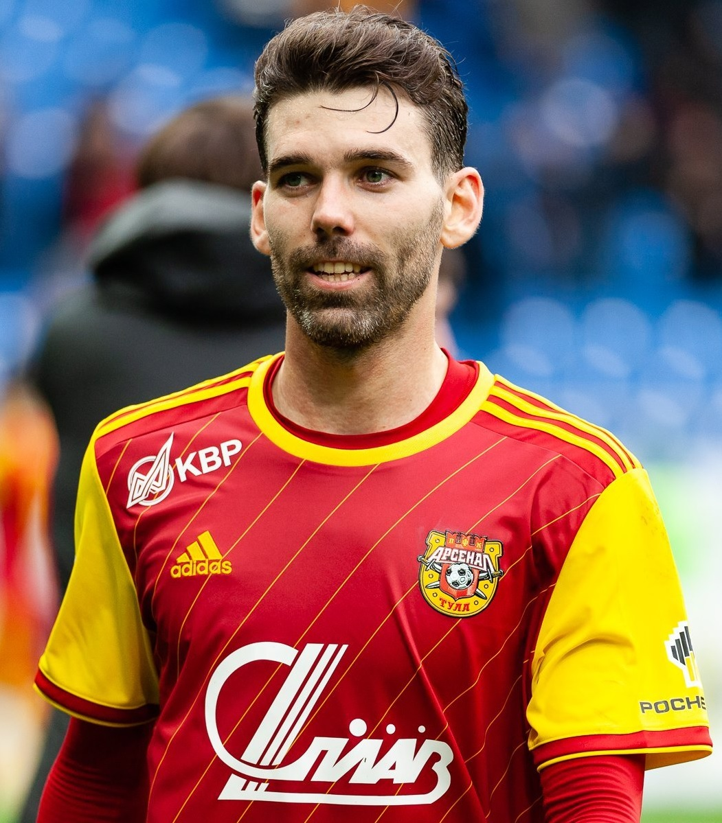 Víctor Álvarez with FC Arsenal Tula in a game against FC Rostov.